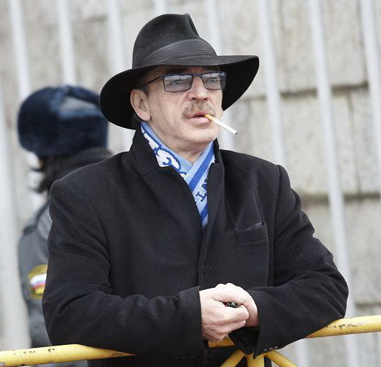 Boyarsky Mikhail Sergeevich